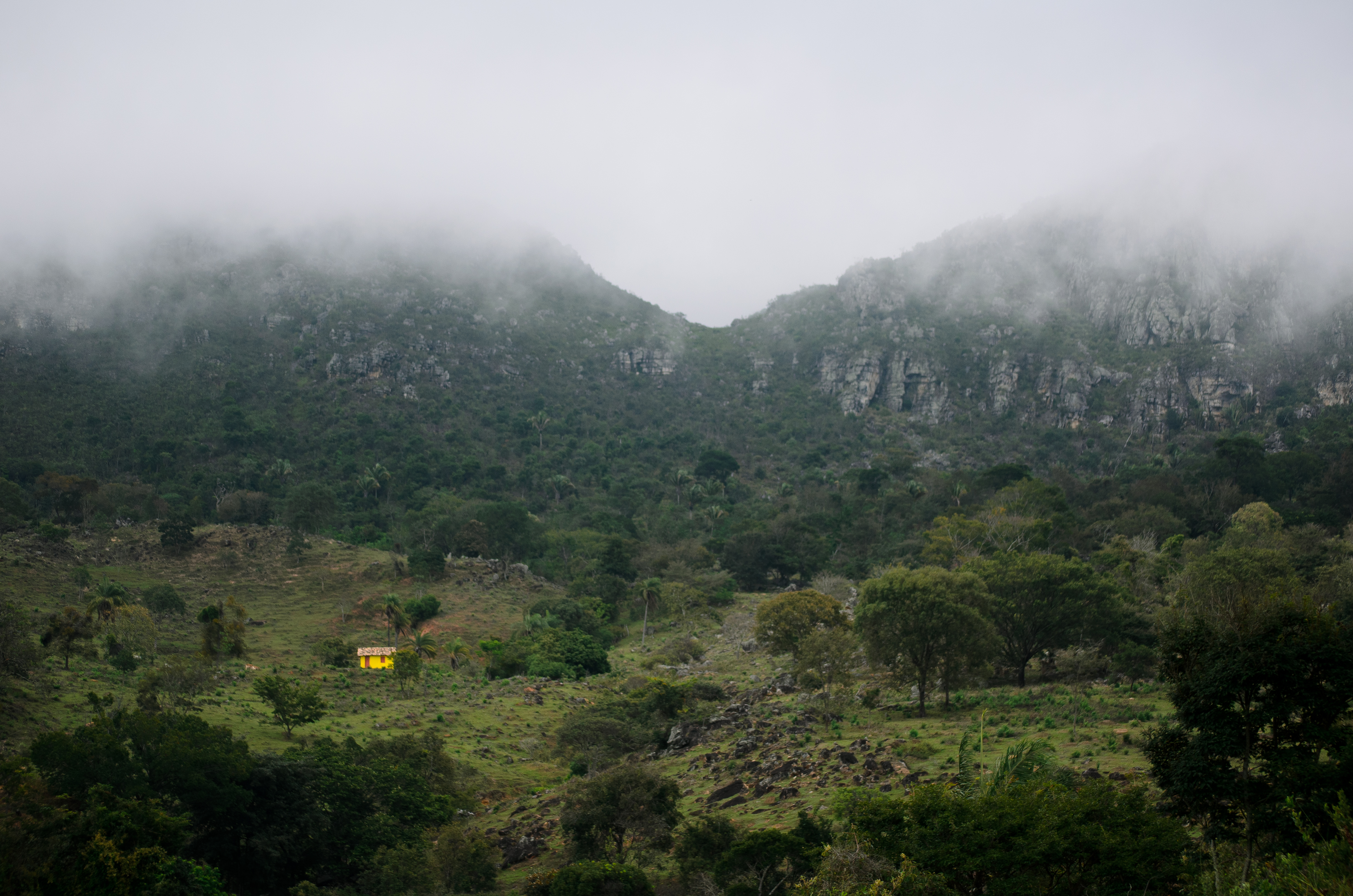 The Little Yellow House ... Who lives there? How is your life? House at place nearby Itacambira town ( Itacambira in tupi-guarani, a Brasilian indian speech, means pointed rock stemming from the bushes) at Sempre Viva Park, Minas Gerais State, Brazil.